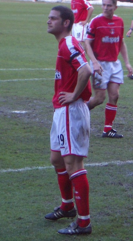 Old photos